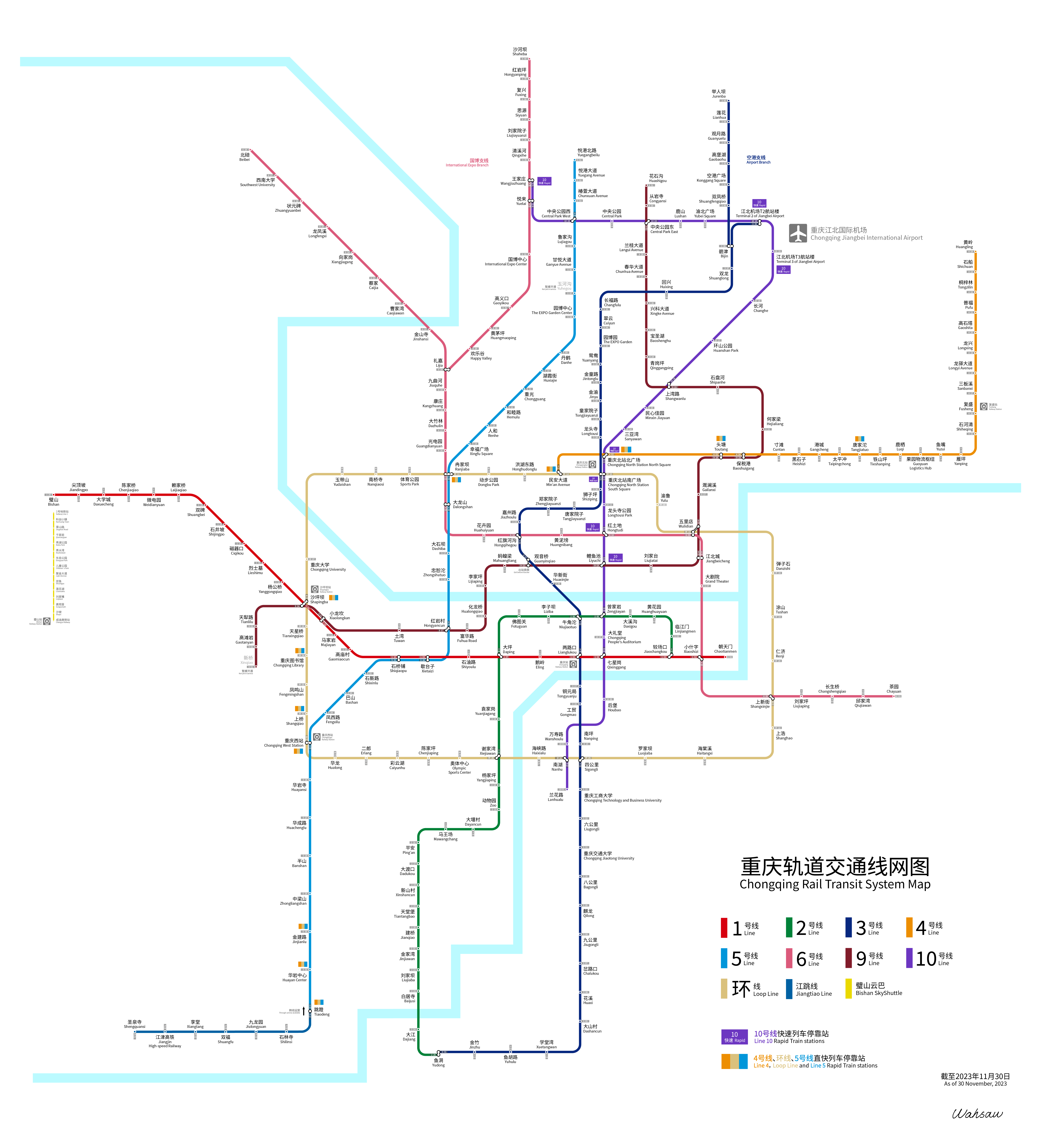 Chongqing Rail Transit system map 201812 Using font Source Han Sans.